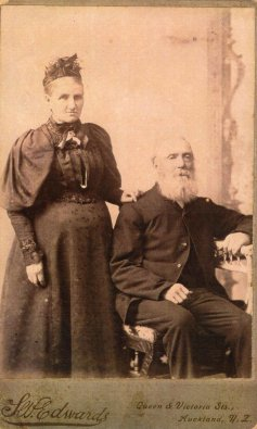 James and Elizabeth Caradus c1900